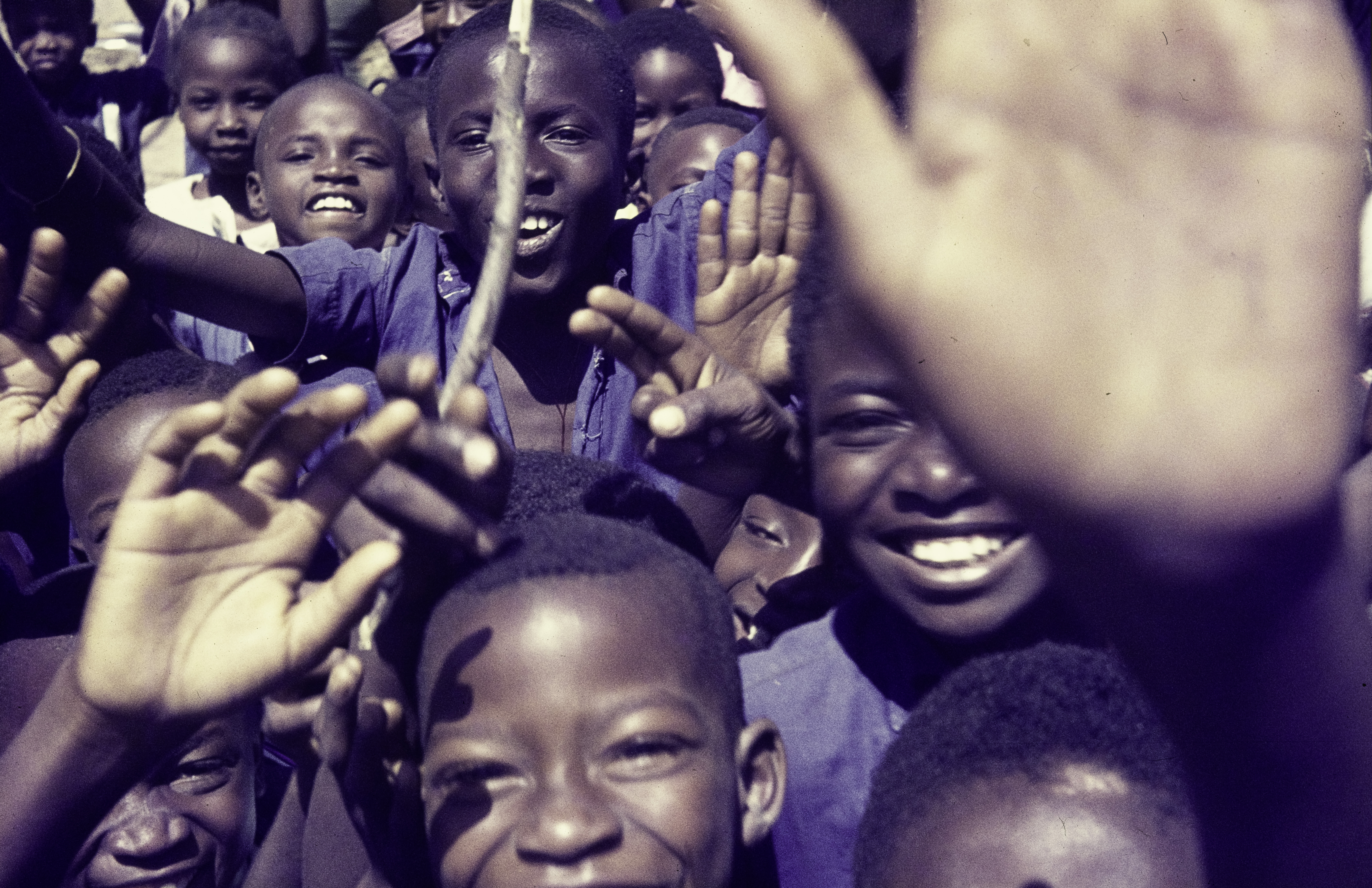 Smiling school children raise their hands when Rietveld comes to visit a student of the teacher training course.